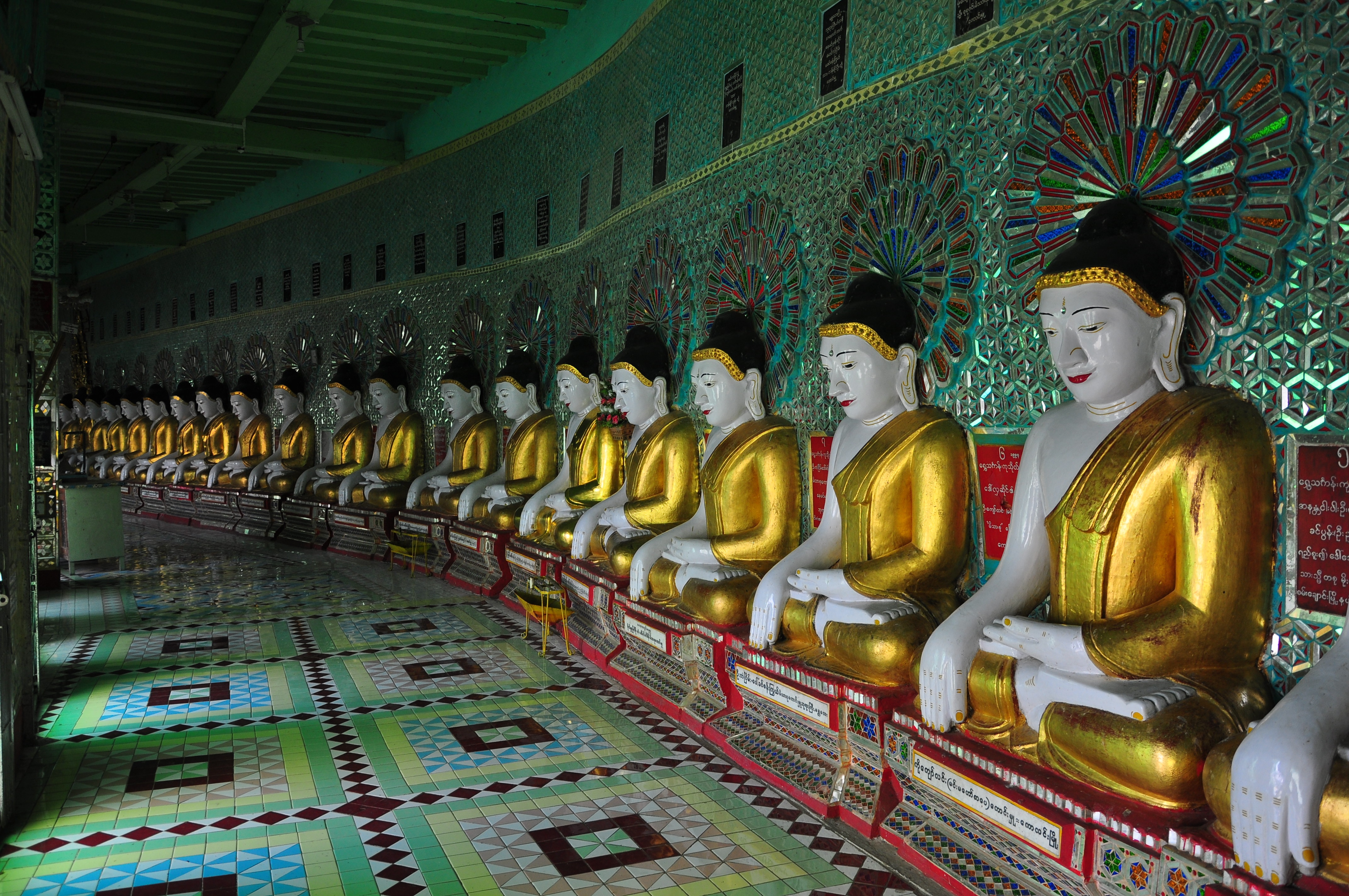 U Min Thonze, Sagaing Hill, Sagaing Division, Burma